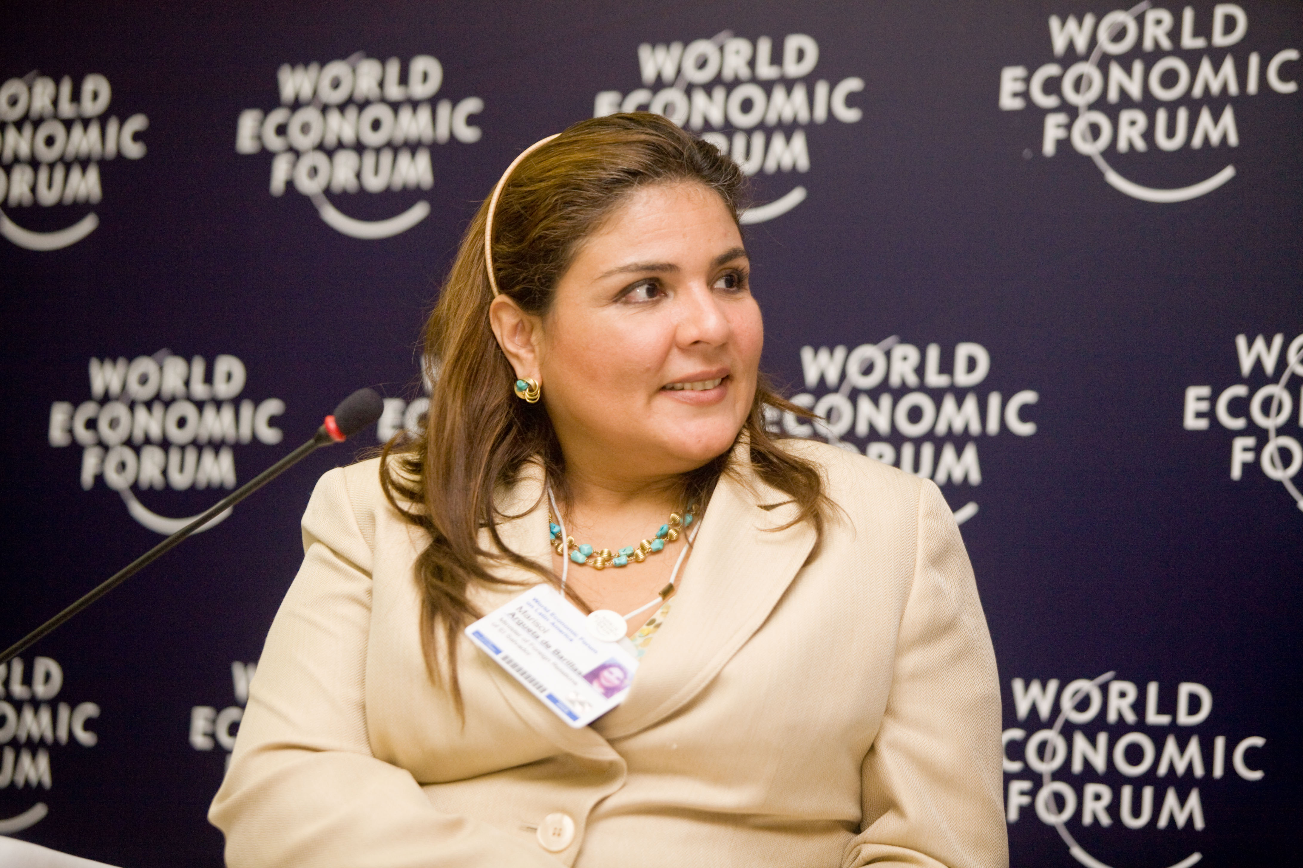 Marisol Argueta de Barillas, Salvadoran Minister of Foreign Relations, speaking at the World Economic Forum on Latin America 2009 in Rio de Janeiro, Brazil.